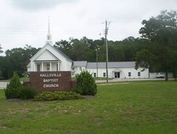 Hallsville Free Will Baptist Church